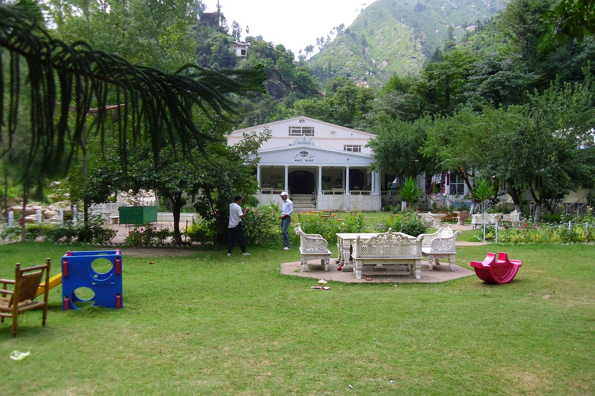 A beautiful Scene